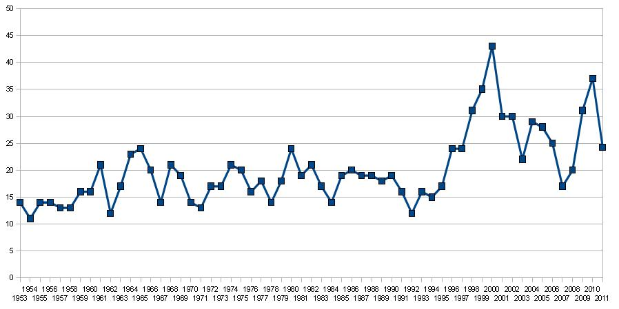 Graph showing number of UK number one singles for each year since 1953. 2011 figure is projected, will be updated later.